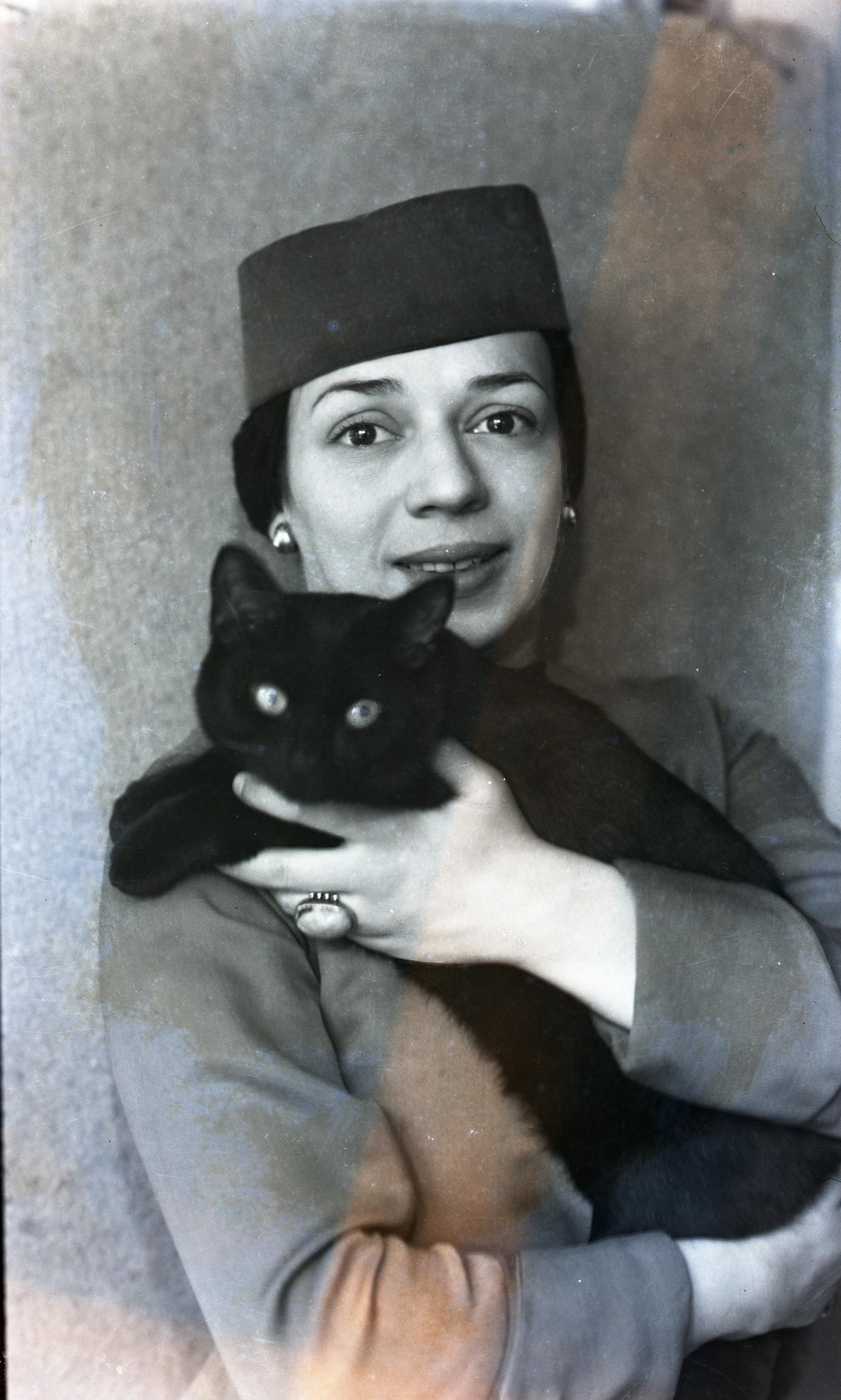 Nanette Beals Brainerd wearing a pillbox hat and cameo ring while holding a cat, ca. 1936. Photographer: Jessie Tarbox Beals Catalog Record: Questions?